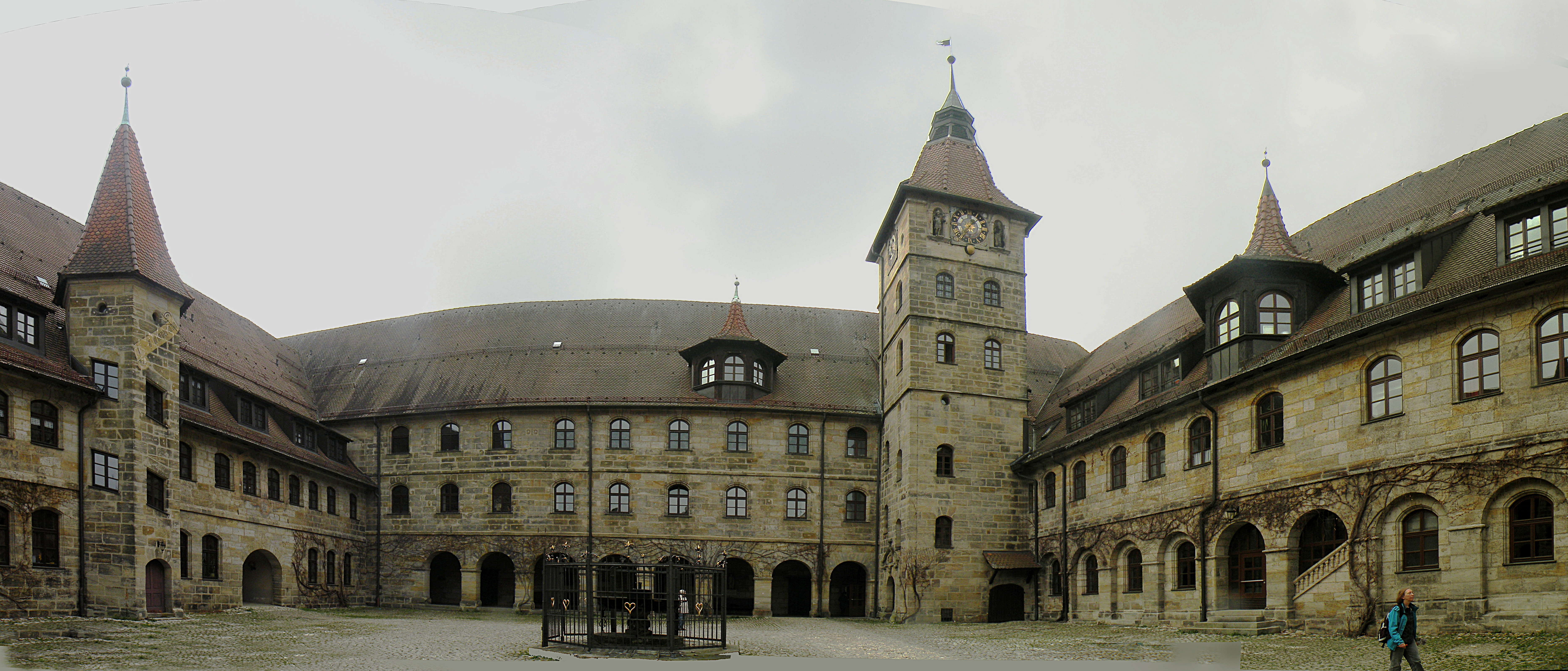 Former Alma Mater of Nuremberg